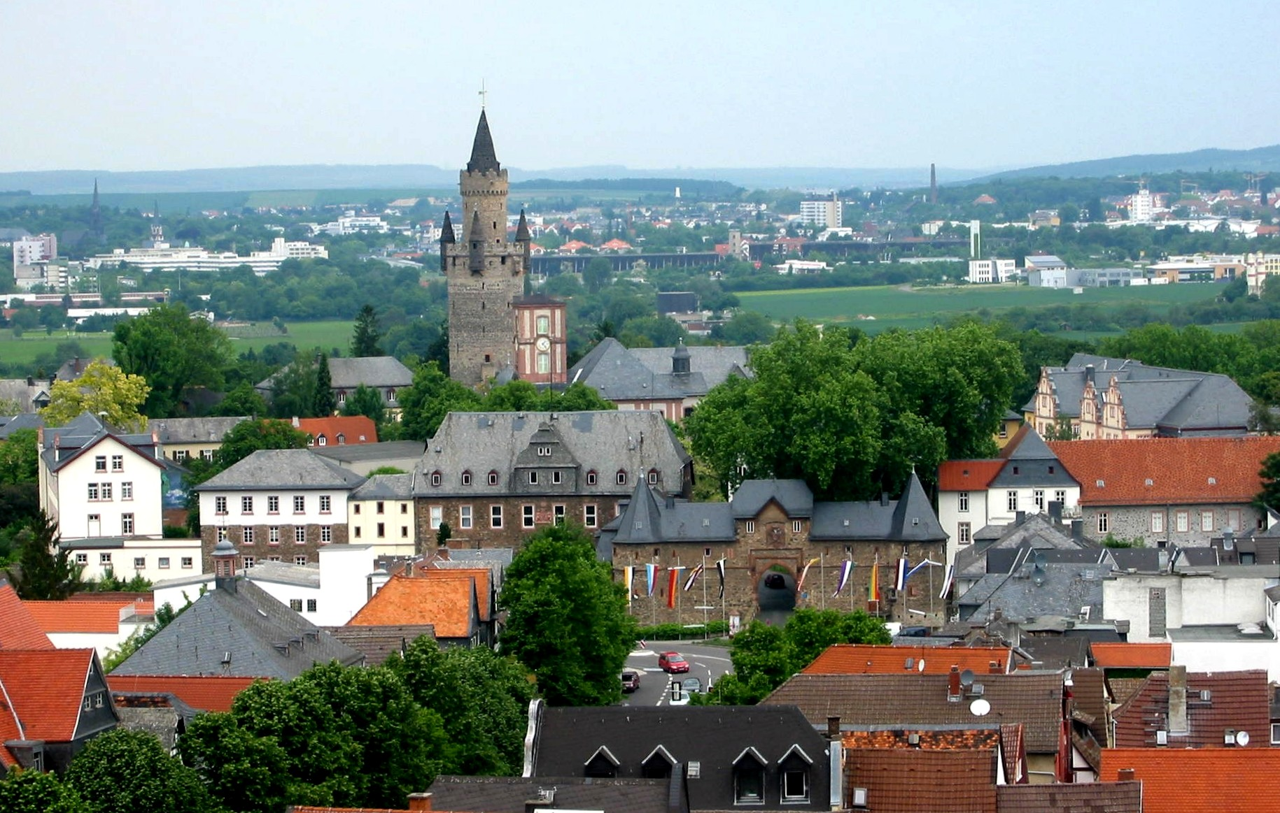 Friedberg (Hesse) castle, view from Stadtkirche